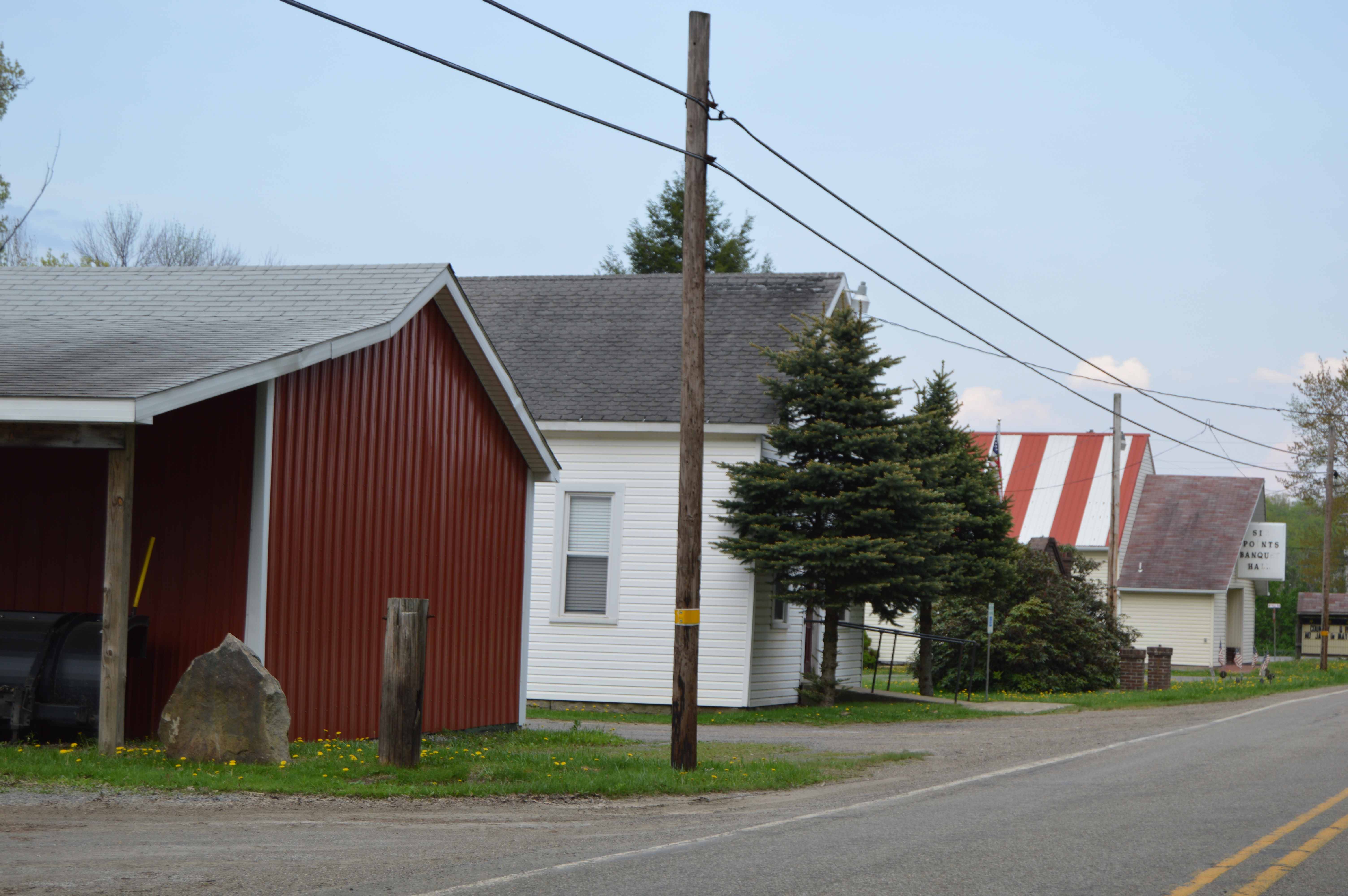 Buildings on the northern side of Pennsylvania Route 58 west of the namesake intersection at Six Points in Allegheny Township, Butler County, Pennsylvania, United States.